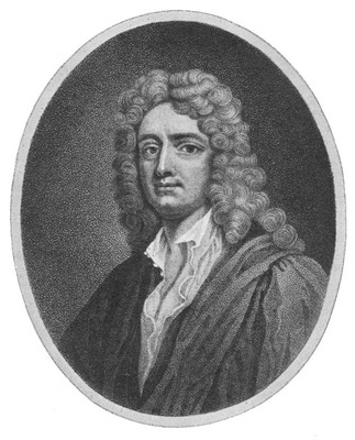 Anthony Ashley Cooper, 3. Earl of Shaftesbury (1671–1713), English writer, philosopher and politician